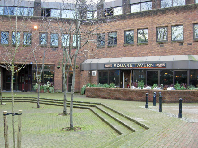 Tolmers Square, Euston The modern Tolmers Square, in the triangle created by Euston Road, Hampstead Road and North Gower Street, consists of a ring of council flats incorporating a pub and wine bar. The original plan, in the 1970s, had been to redevelop the site for office accommodation but this was bitterly opposed by residents of the old Tolmers Square. In the end, the demolition went ahead but Camden Council compulsorily purchased the site, scaled back the offices and built the estate pictured here.